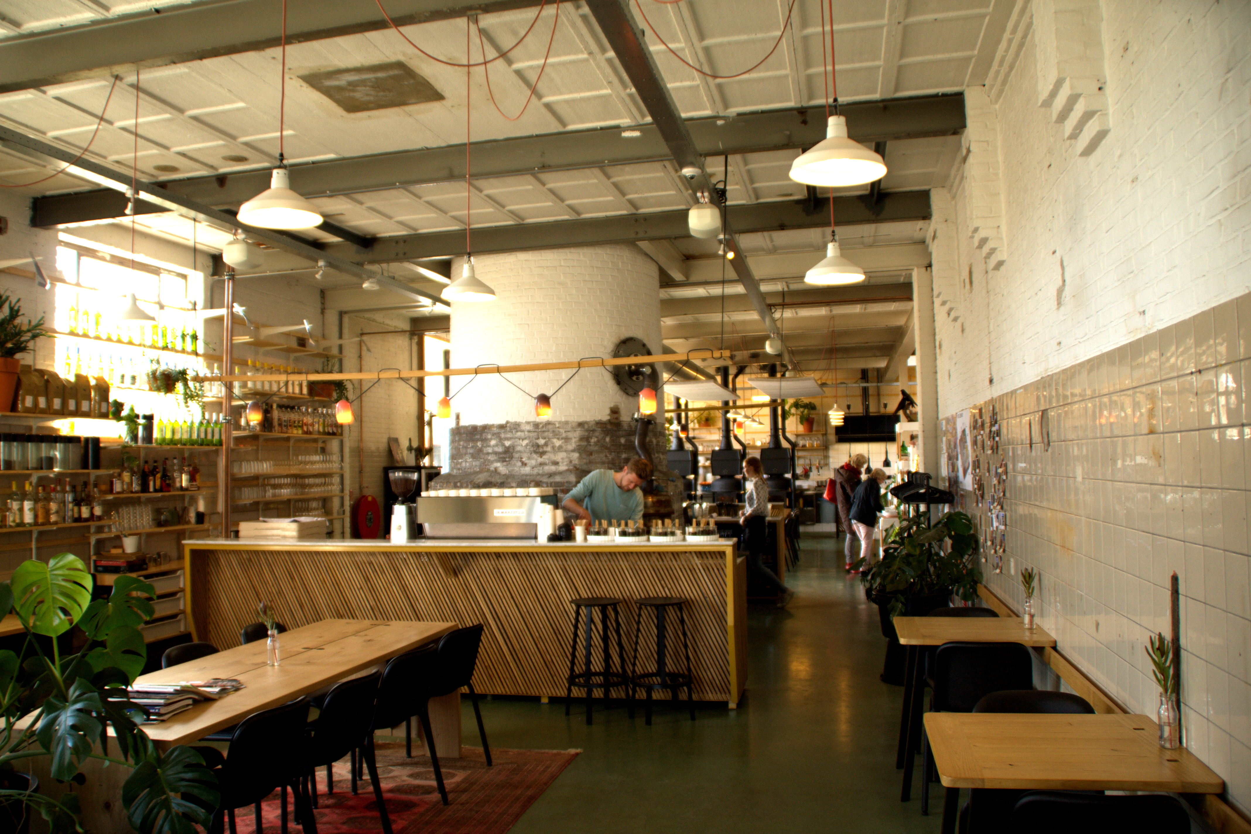 Restaurant Hoog Vuur, former Prodent Factory, Amersfoort, The Netherlands